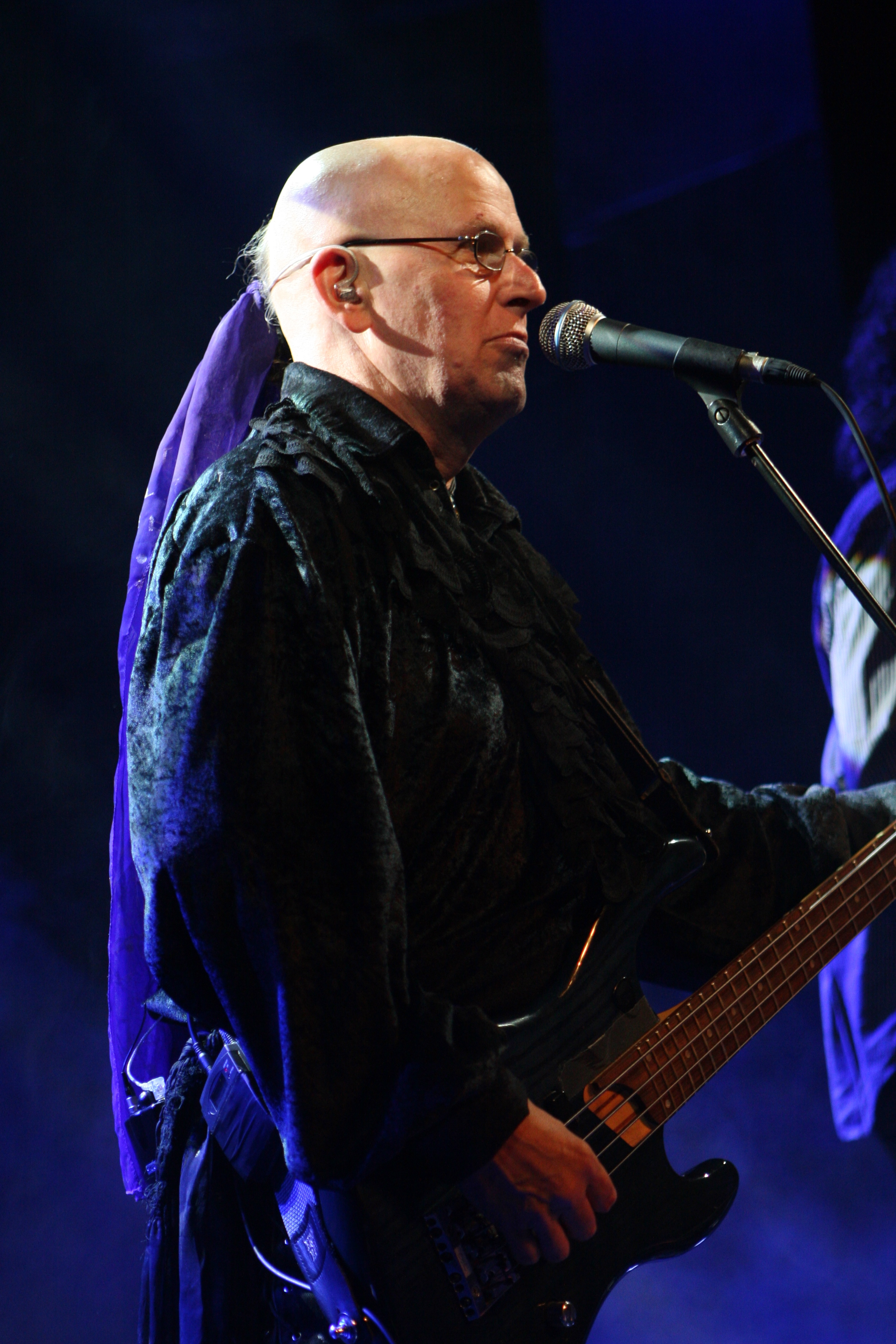 Kelly Groucutt of the rock band Electric Light Orchestra in concert at Barcelona on June 6, 2008